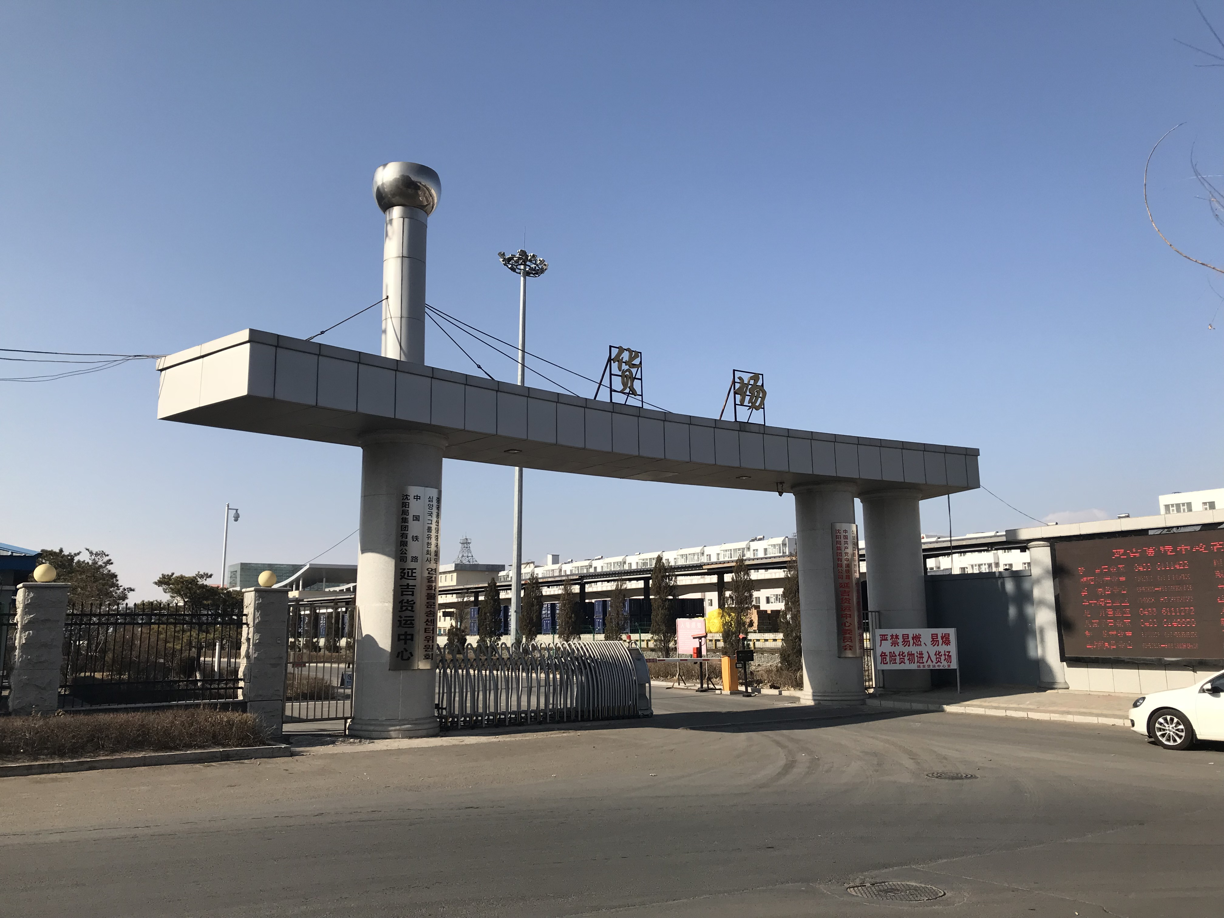 Yanji Station - Gate of Freight Yard